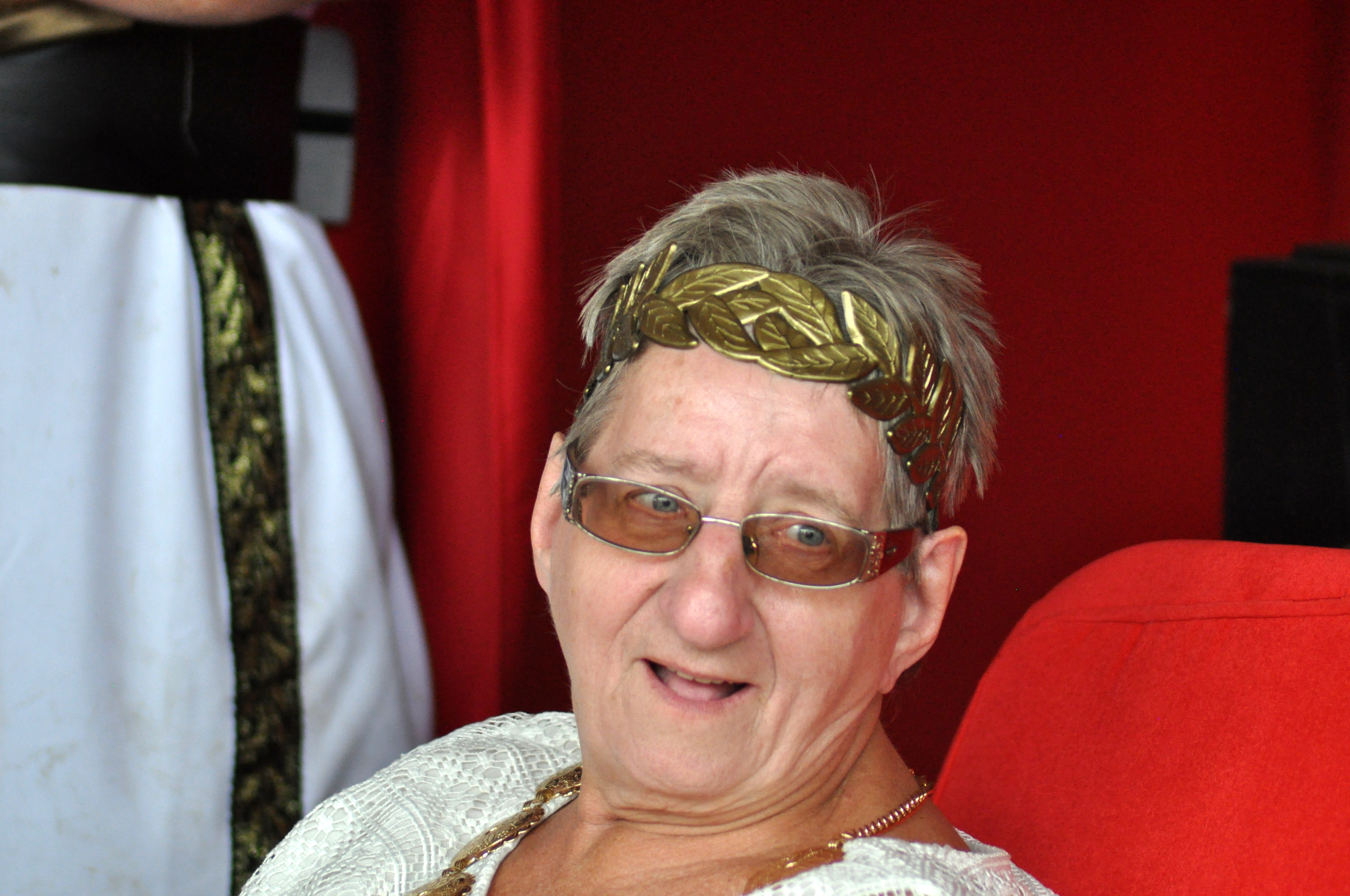 Aunt Rikie, patron of the Zwarte Cross festival